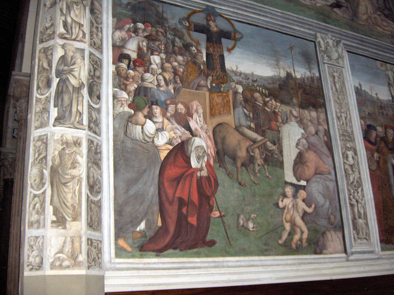 Amico Aspertini. Transportation of the Volto santo (in the chapel of the Cross); basilica of San Frediano; Lucca, Italy. Ca. 1508. Own photo - photo made on 10 October 2005.